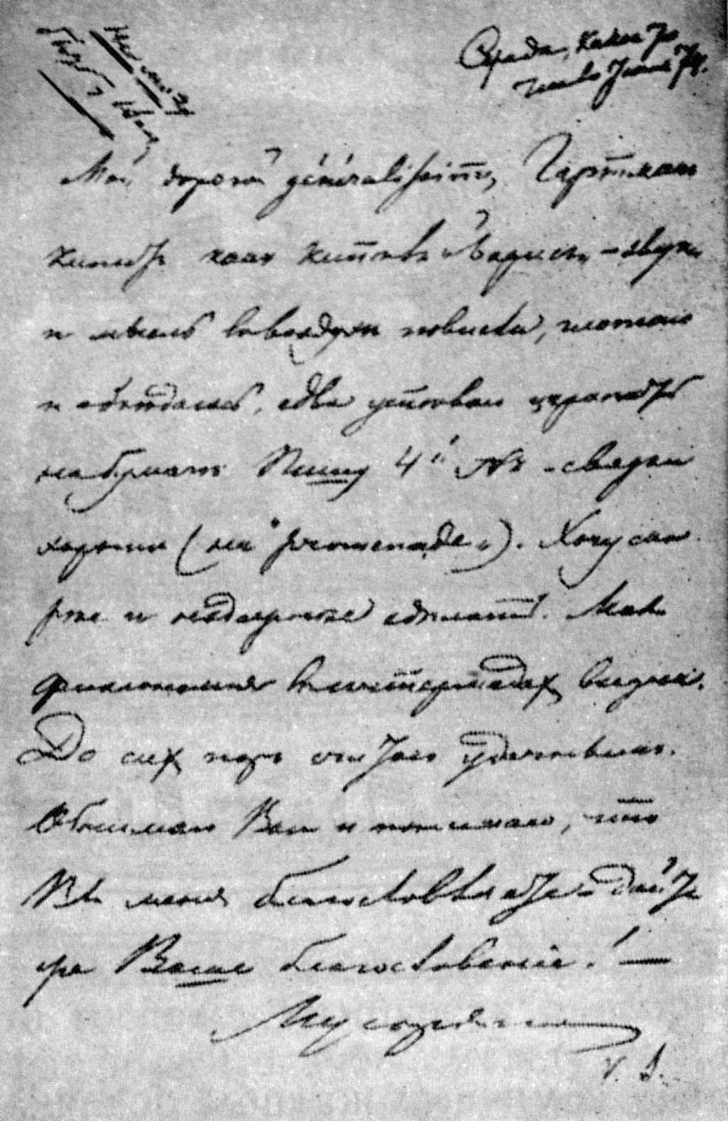 A letter of Mussorgsky to Stasov in which he writes about his progress in composing Pictures at the Exhibition.